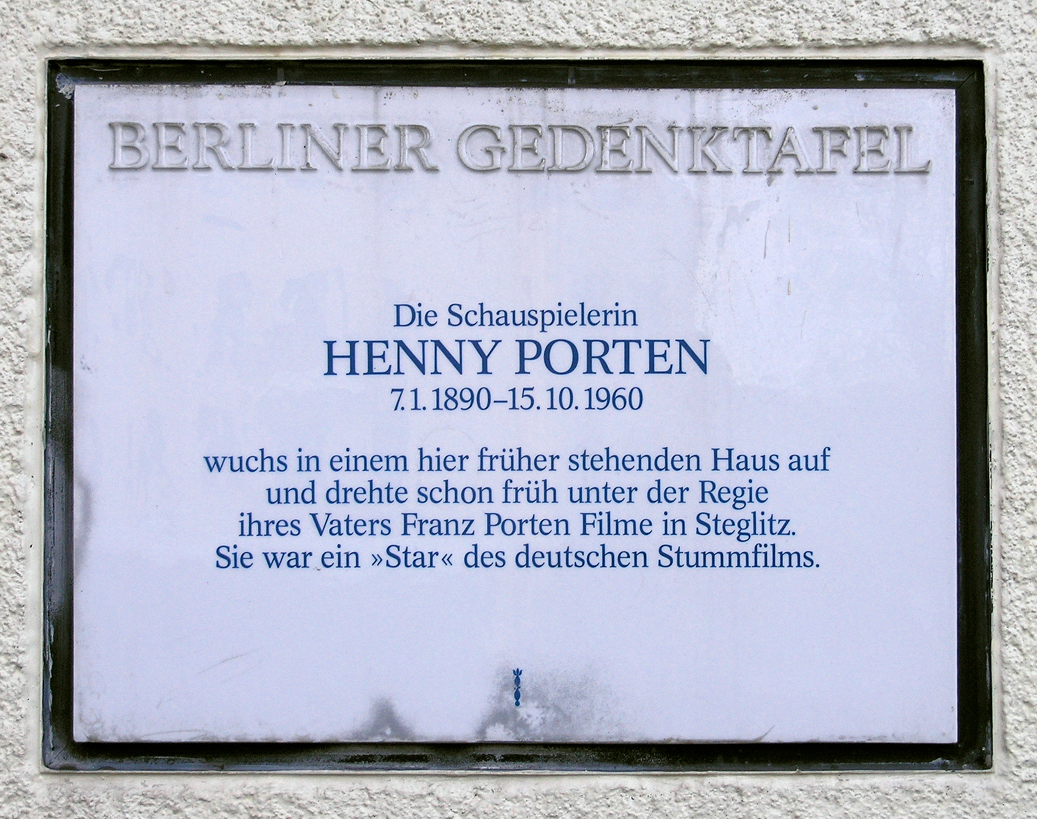 Berlin memorial plaque, Henny Porten, Albrechtstraße 40, Berlin-Steglitz, Germany